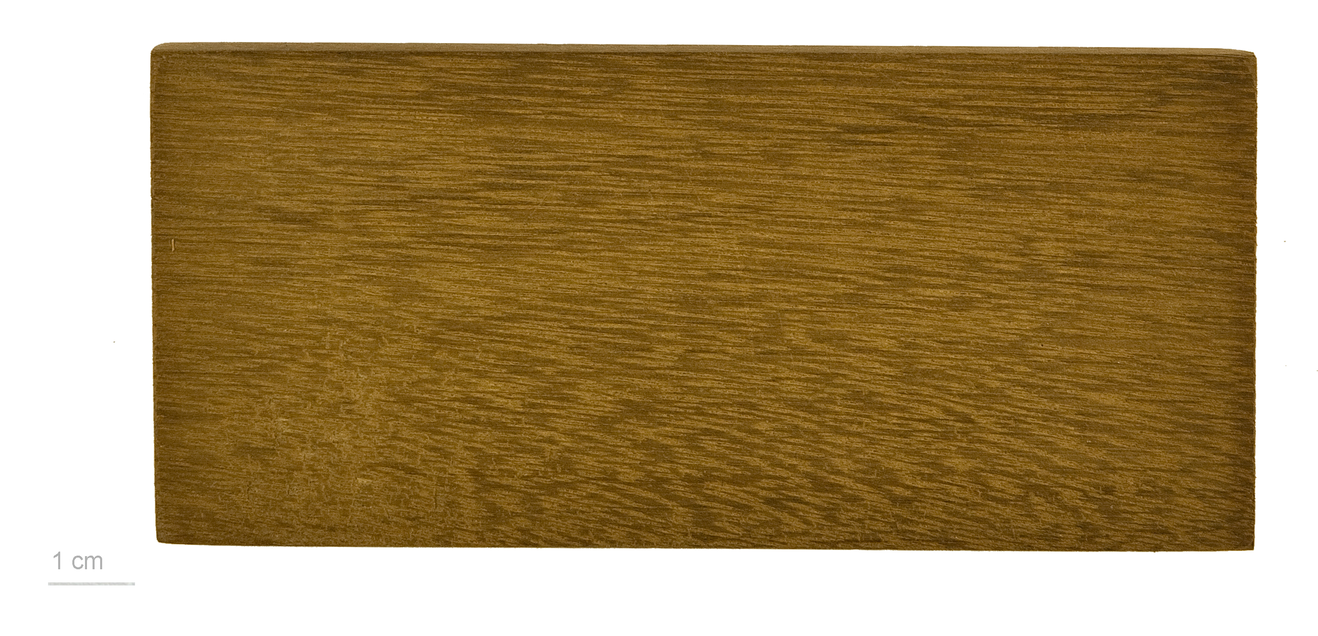 Ocotea guianensis, wood